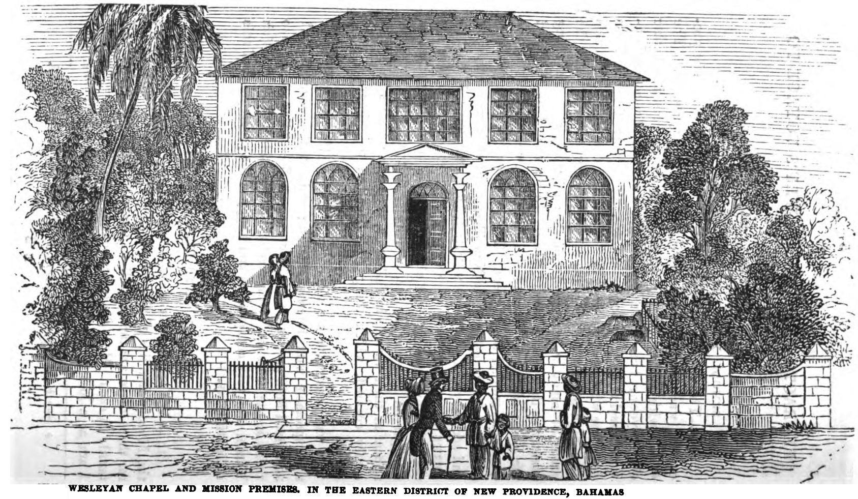 Wesleyan Chapel and Mission Premises. In the Eastern District of New Providence, Bahamas (p.6, 1849)